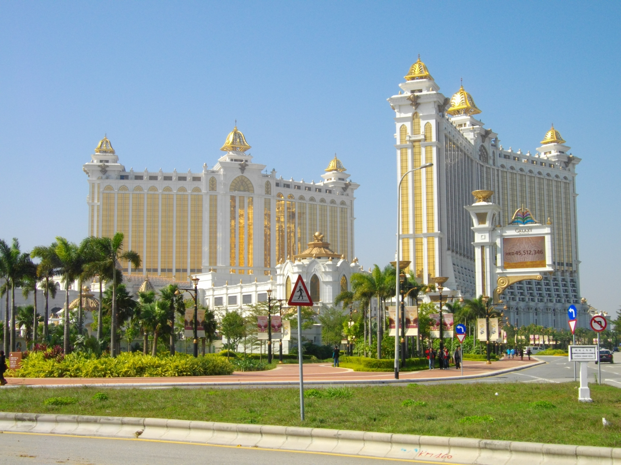 Galaxy Macau